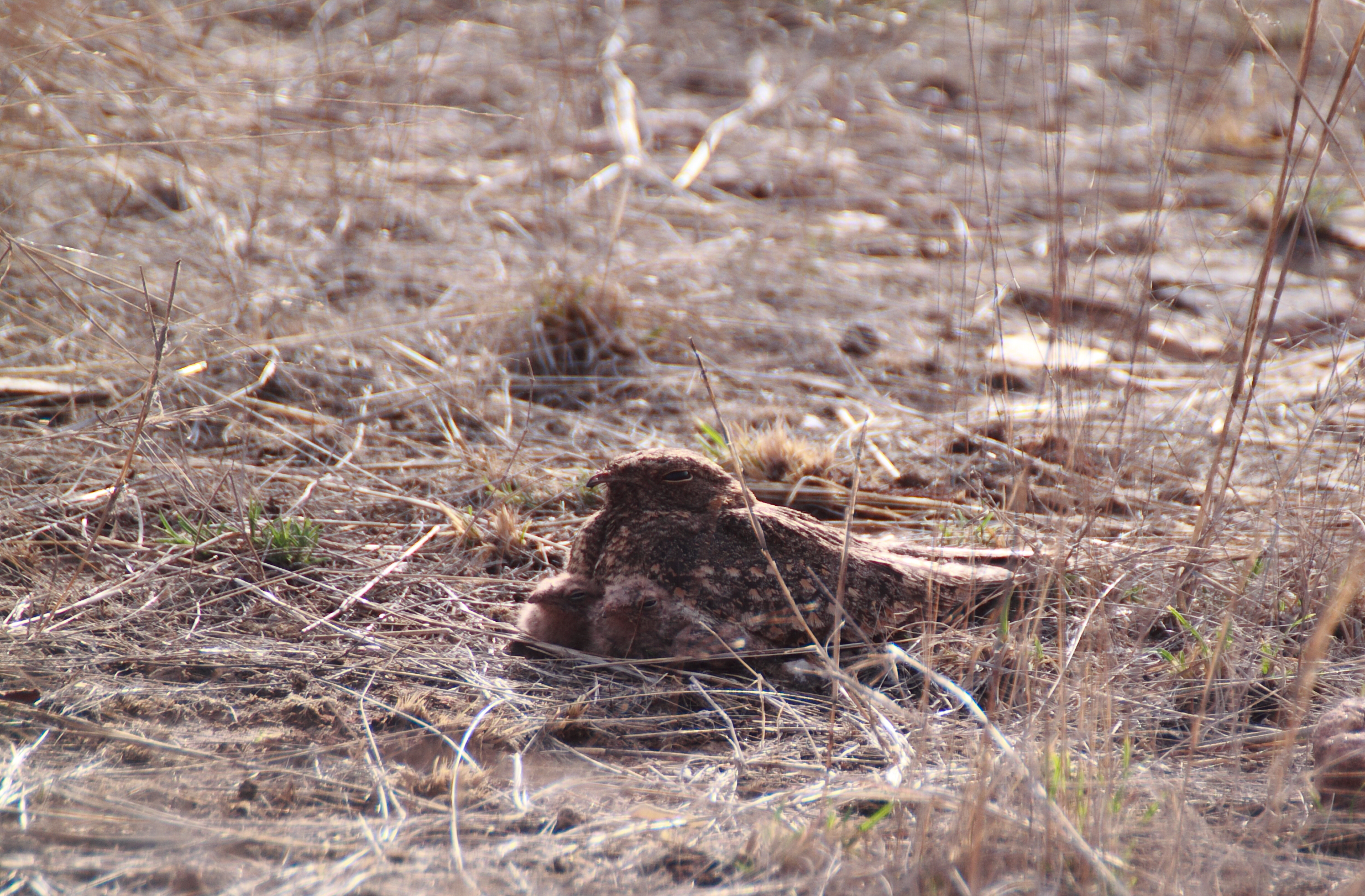 Savanna nightjar (Caprimulgus asiaticus) with chicks